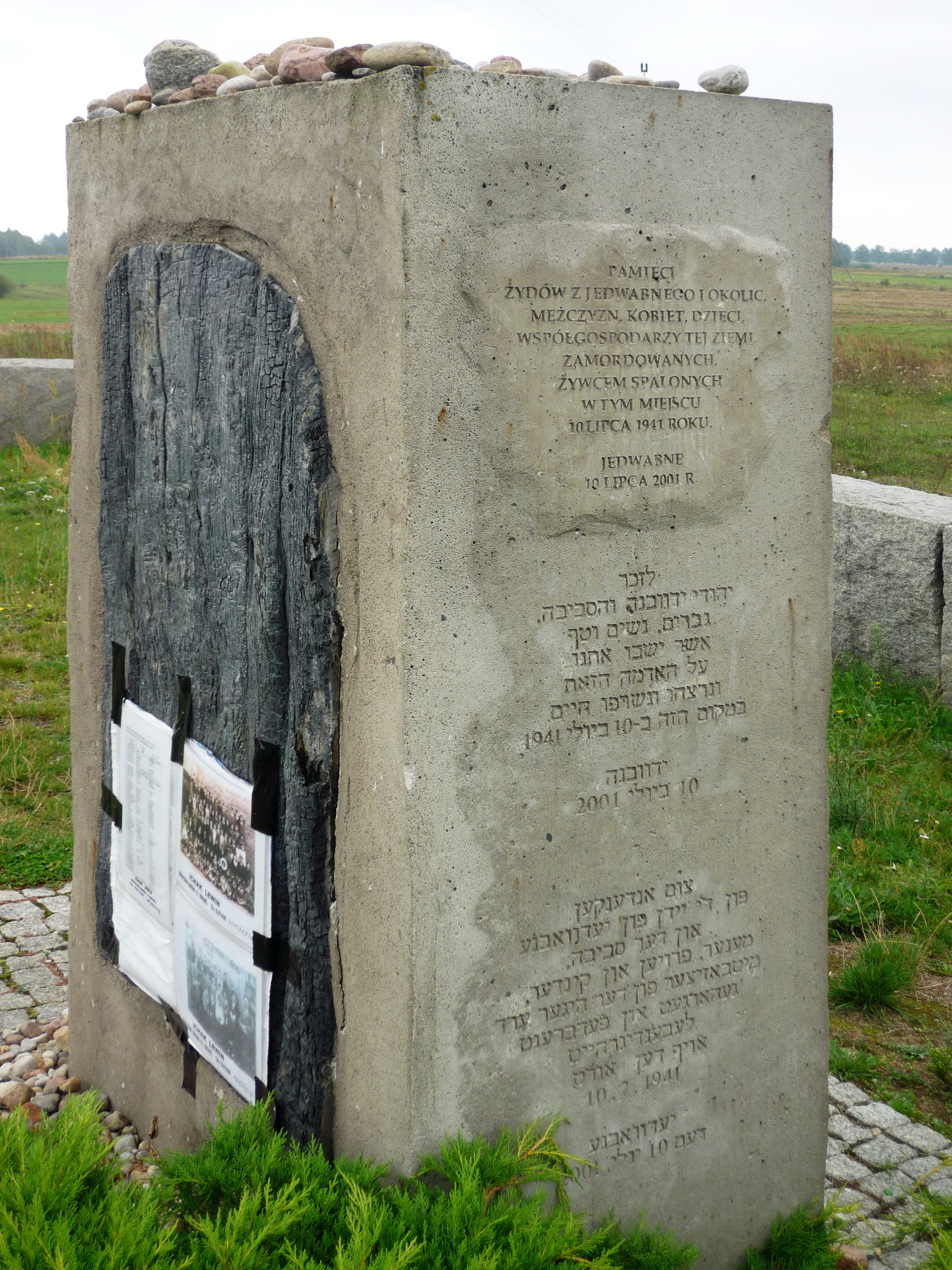 Memorial in Jedwabne, dedicated to murdered Jews: In remembrance of the Jews from Jedwabne and surrounding areas, men, women, children, co-habitants of this earth, murdered, burned alive here on July 10th, 1941.